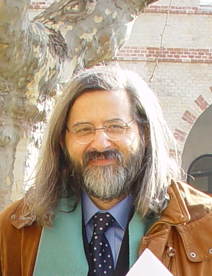 Adelino Zanini